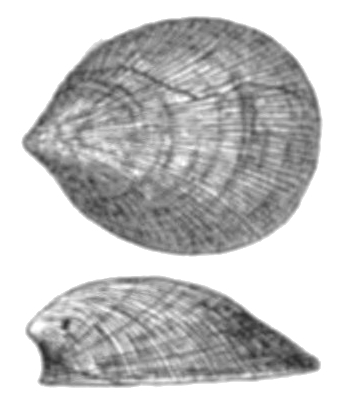 Drawing of dorsal view and lateral view of Helcionopsis striata. Head region is on the left.